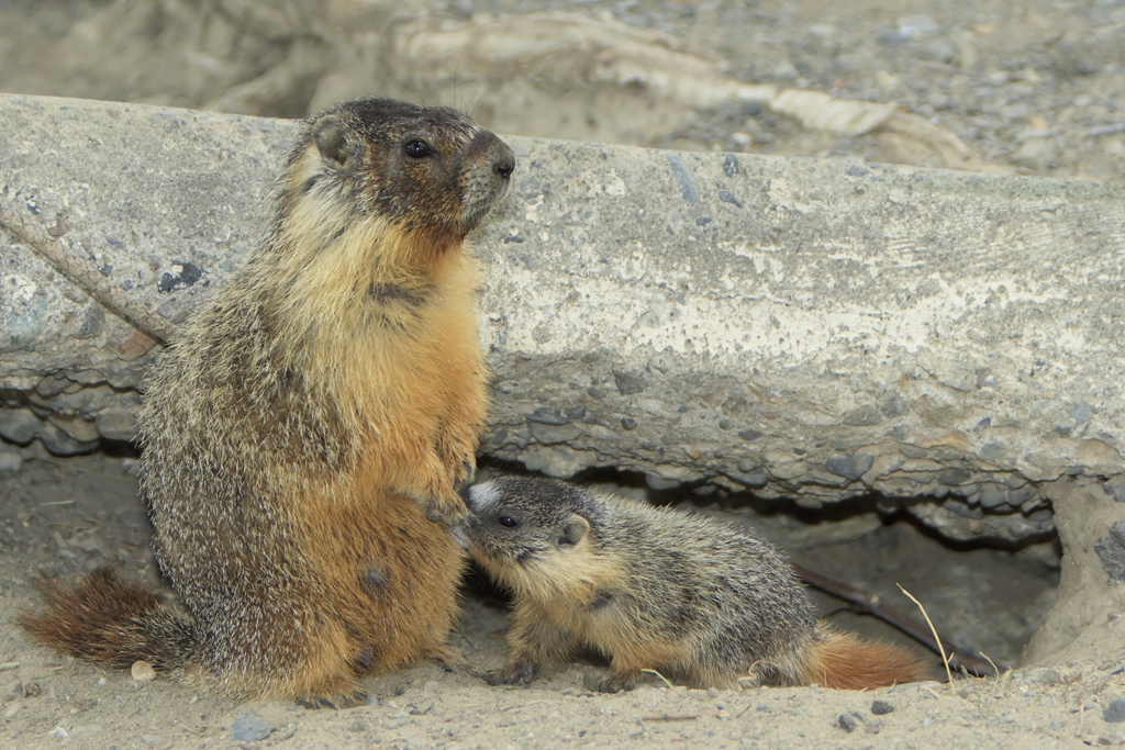 Just outside their den, this mother Yellow-bellied marmot allowed one of her young pups to suckle for a short time.